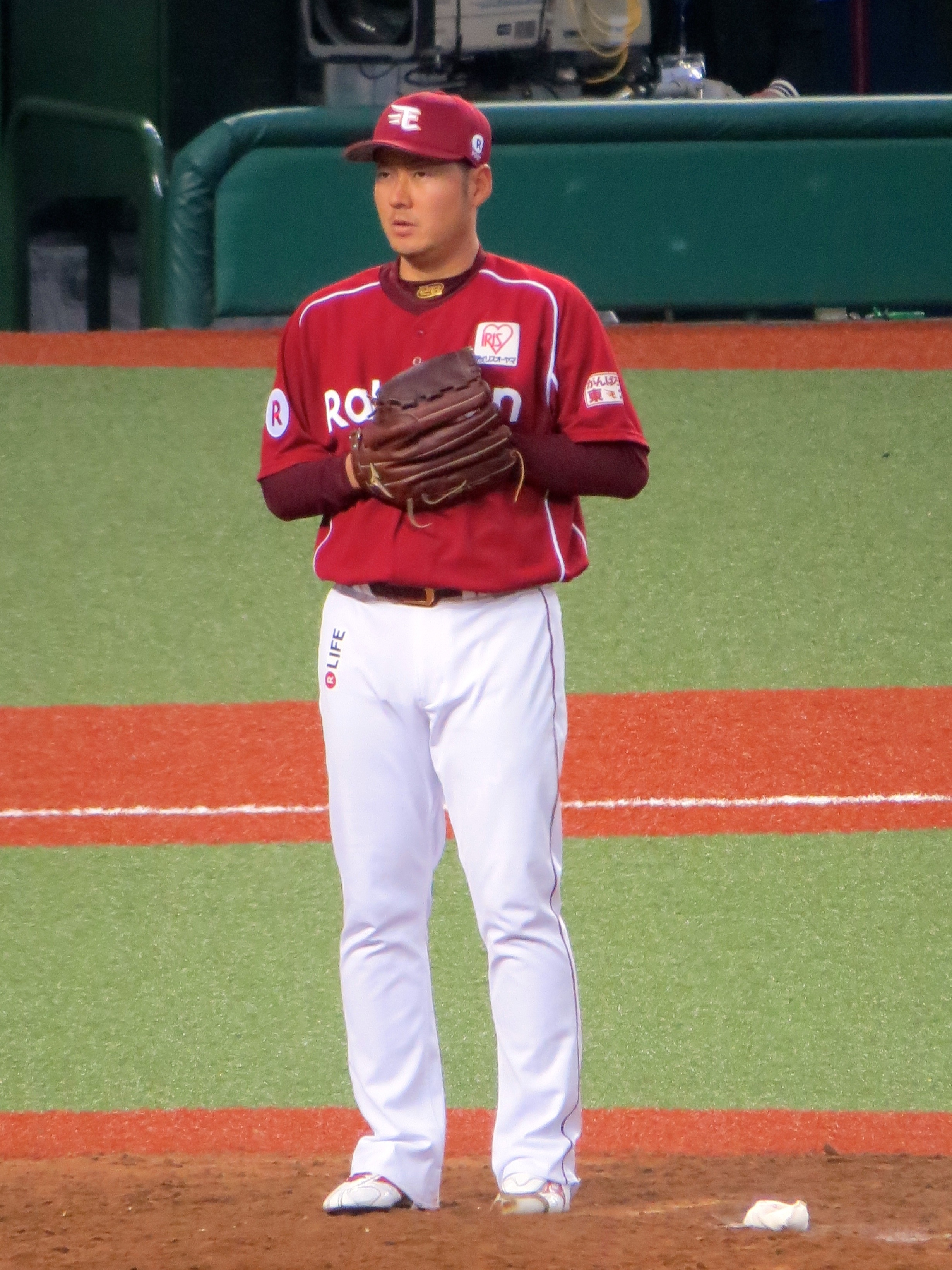 Norihito Kaneto, pitcher of the Tohoku Rakuten Golden Eagles, at Seibu Dome